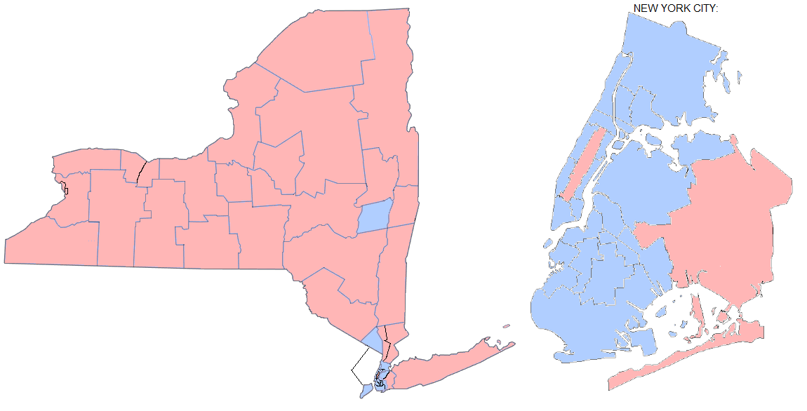 Partisan composition of the Senate of the 148th New York State Legislature, in office from January 1 to December 31, 1925. Red represents Republican senators and Blue represents Democratic senators. Boundaries are courtesy of the 1918 The World almanac pp. 831- 834, and parties are courtesy of the English Wikipedia page of the 148th New York State Legislature. Adapted from File:New_York_Counties.svg.